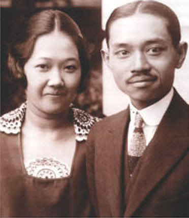 Photograph of King Rama VII and his consort Rambai Barni of Siam—Thailand — from their exile in England circa 1935-1941